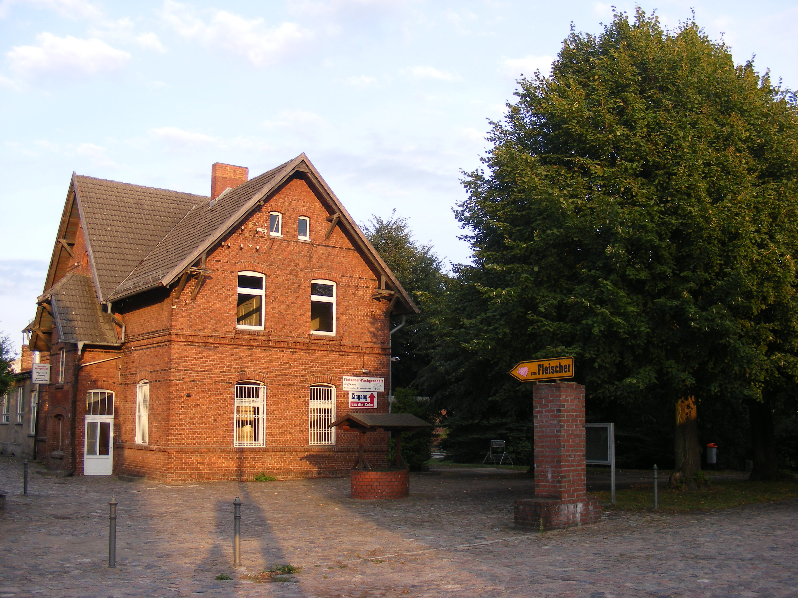 Former Dettmannsdorf-Koelzow railway station, near Rostock, Germany